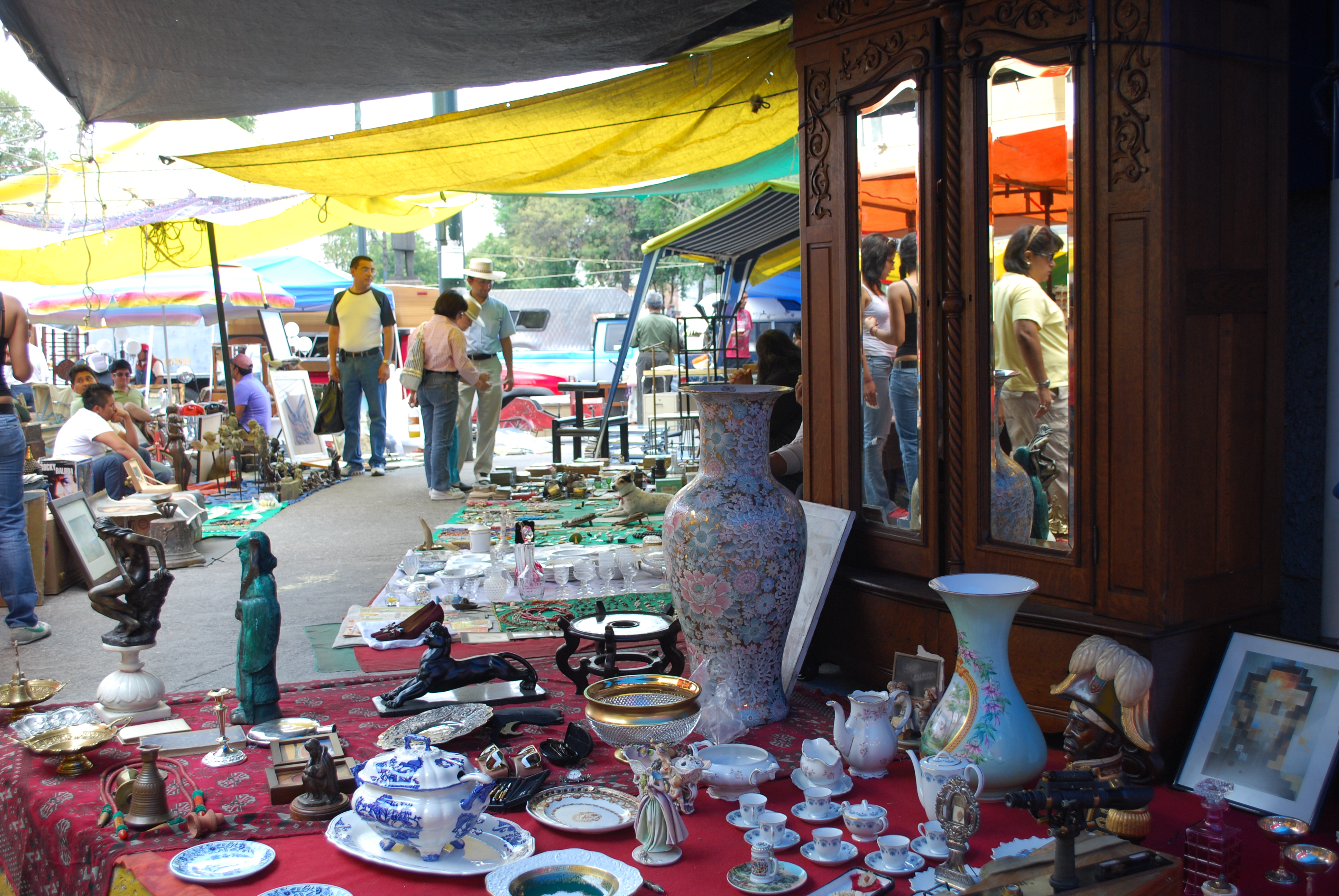 Scene at the Lagunilla Sunday antiques market in Mexico City